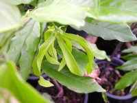 Flower: Desmos chinensis Lour